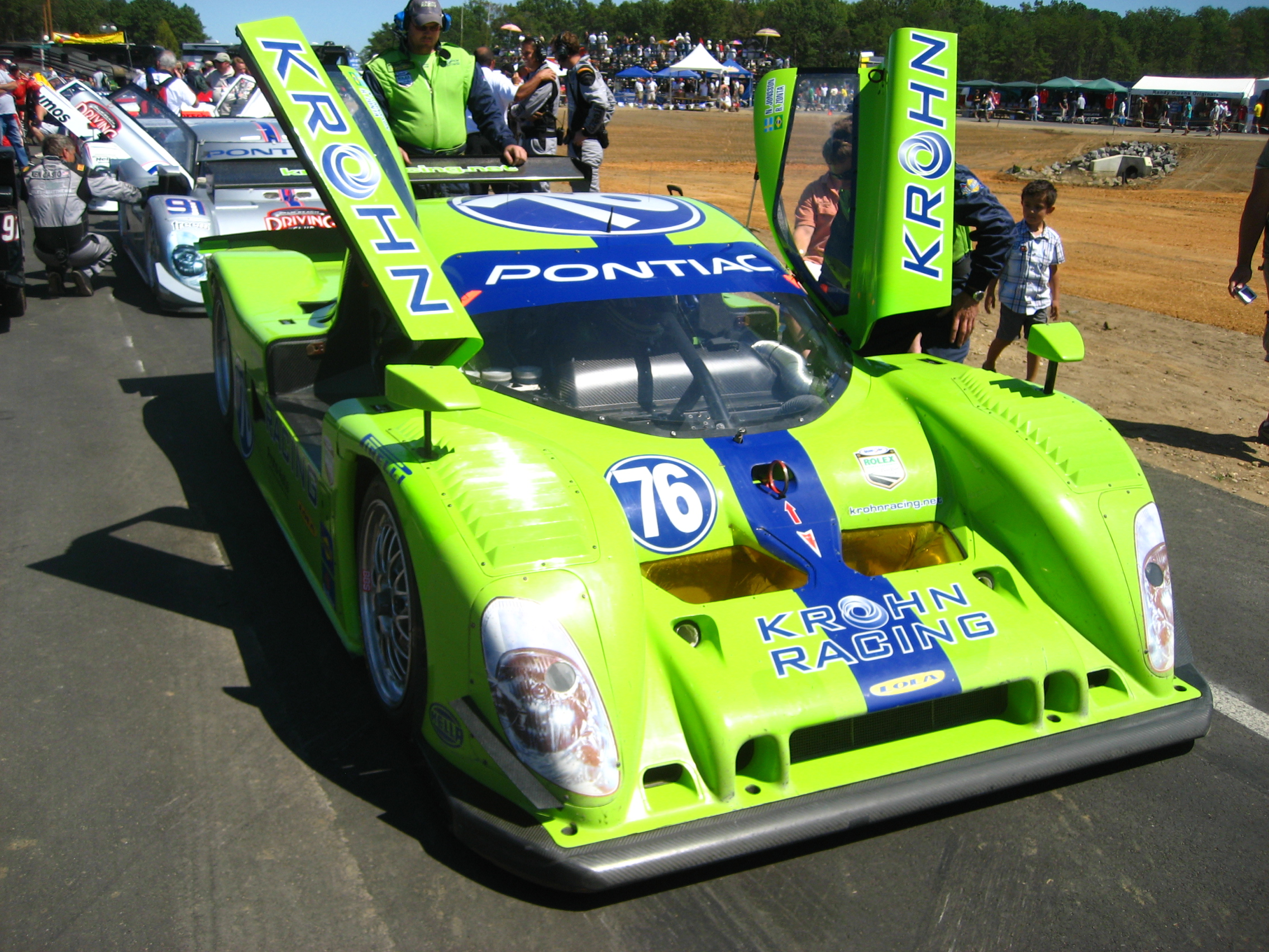 Krohn Racing's Lola-Pontiac at the 2008 Supercar Life 250 at New Jersey Motorsports Park.